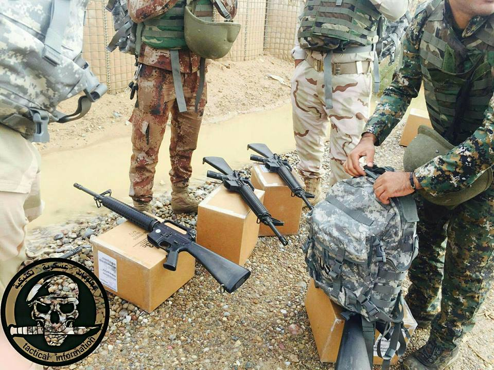 American weapons